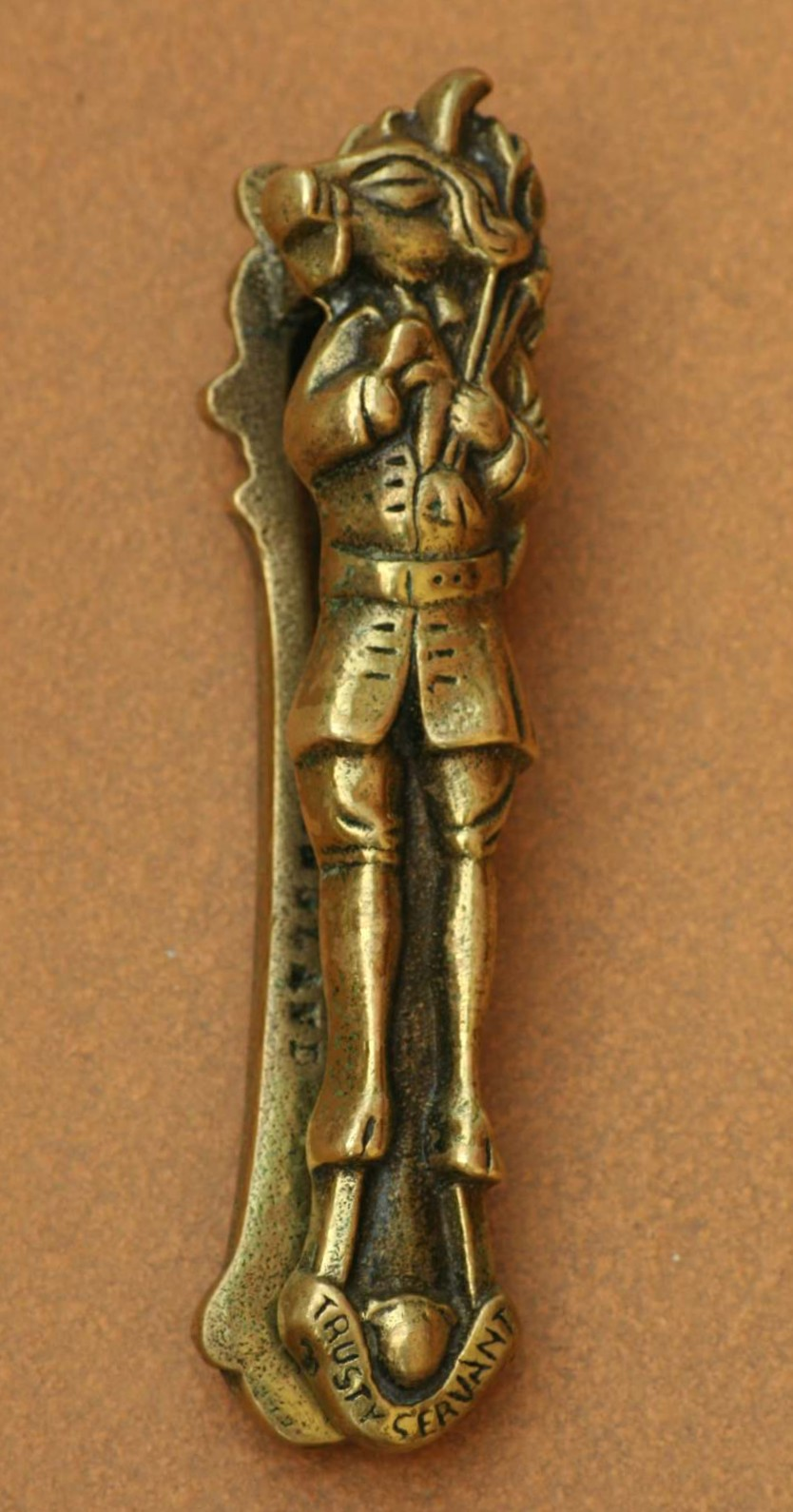 Casse-noix en bronze Trusty Servant - Winchester - fin XIXe siècle